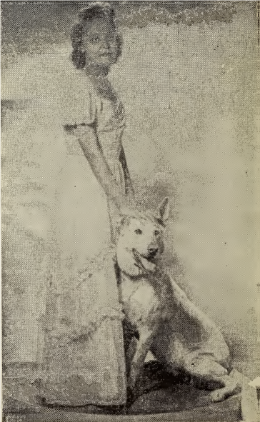 This is a photograph of Geraldine and her dog Blondie.